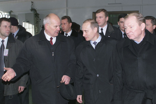 KHARKOV. President Putin visiting the Kharkov State Aviation Enterprise with Ukrainian President Leonid Kuchma and the Director-General of the enterprise Anatoly Myalitsa.